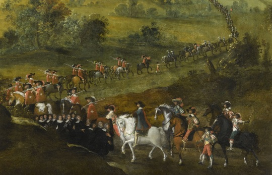 Reddition_de_la_ville_de_Montauban_par Louis XIII et le cardinal de Richelieu accompagné du duc de Montmorency, du marquis d'Effiat et du vicomte d'Arpajon le 21 Aout 1629. (detail)